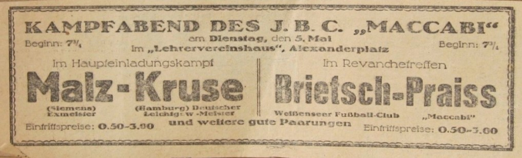 Press advert for the Malz-Kruse fight.